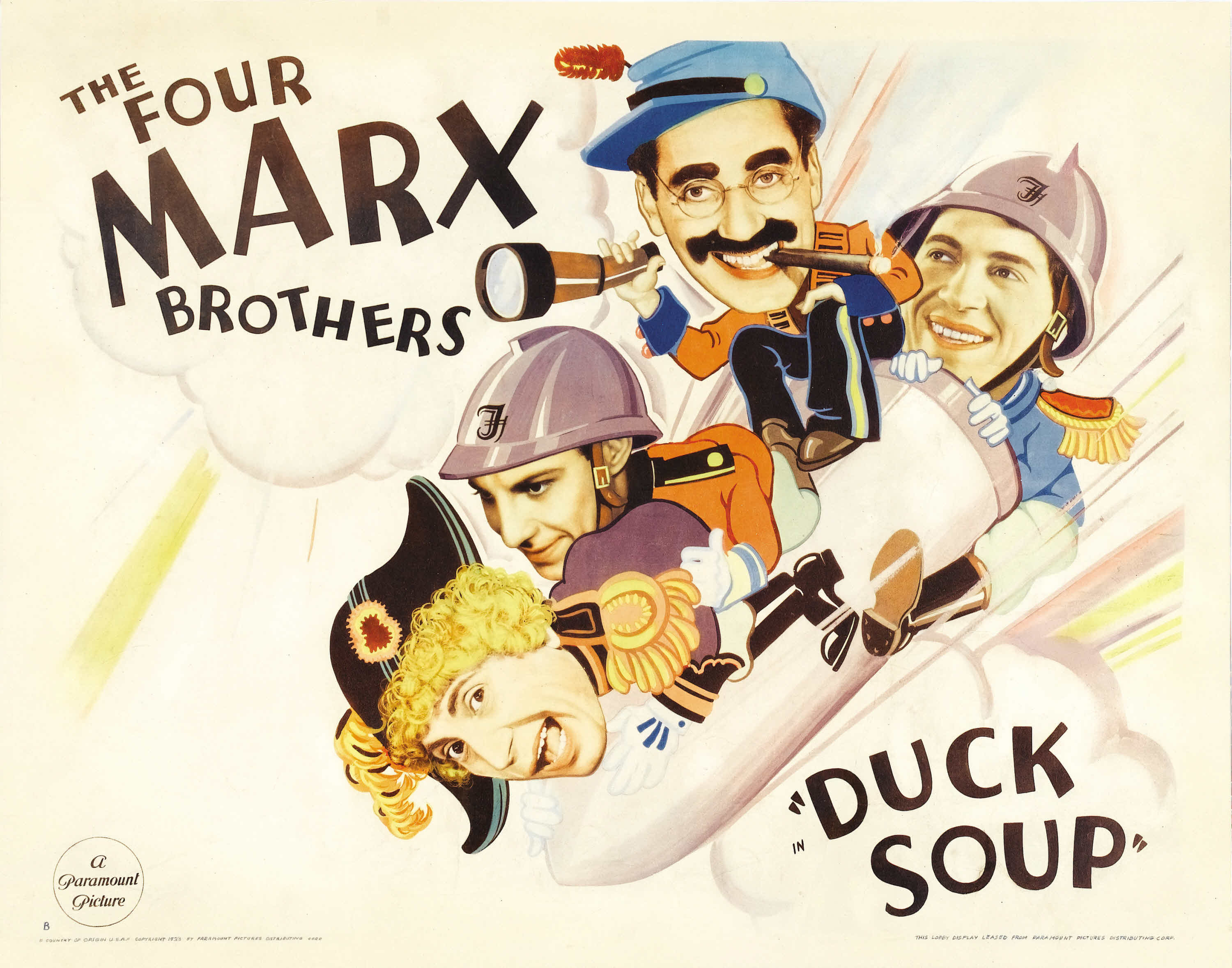 Theatrical poster for the release of the 1933 comedy film Duck Soup, starring the Marx Brothers. From left to right: Harpo, Zeppo, Groucho, and Chico. This is the "Style B" half-sheet poster for the film.